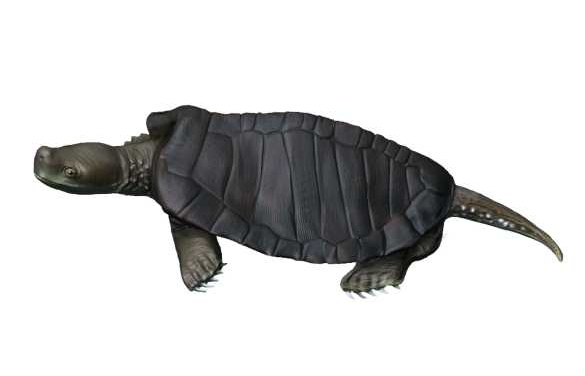 Kayentachelys aprix